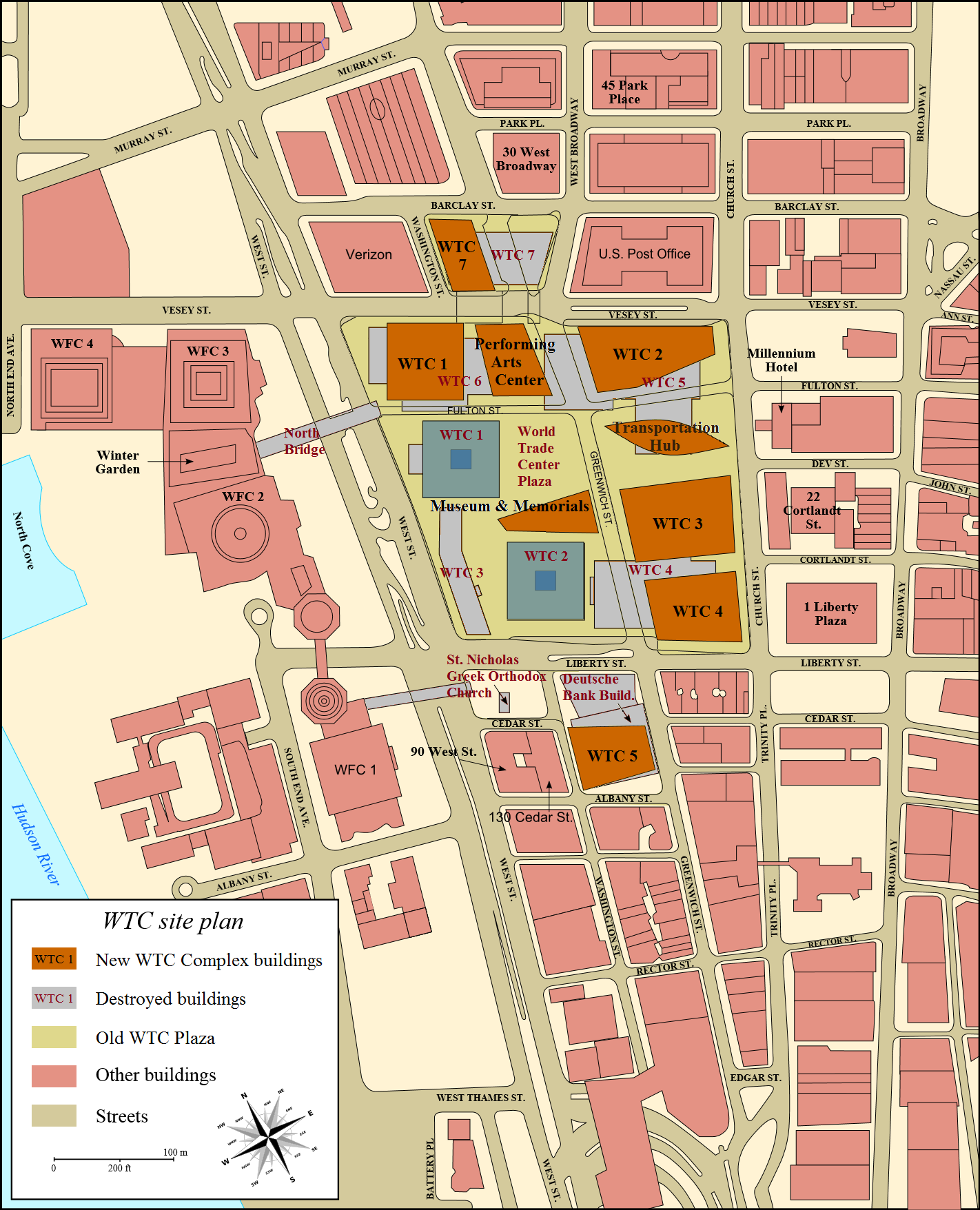 Overlay of arrangement of World Trade Center buildings at the site pre-9/11 and today